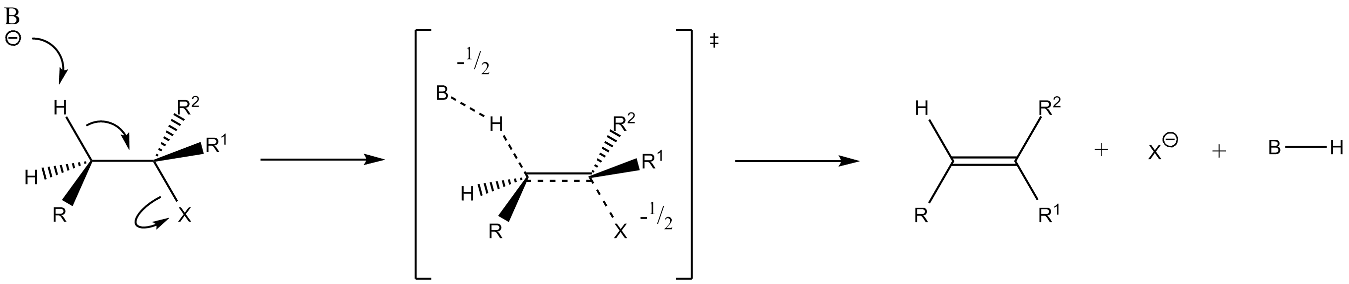 E2 mechanism with transition state